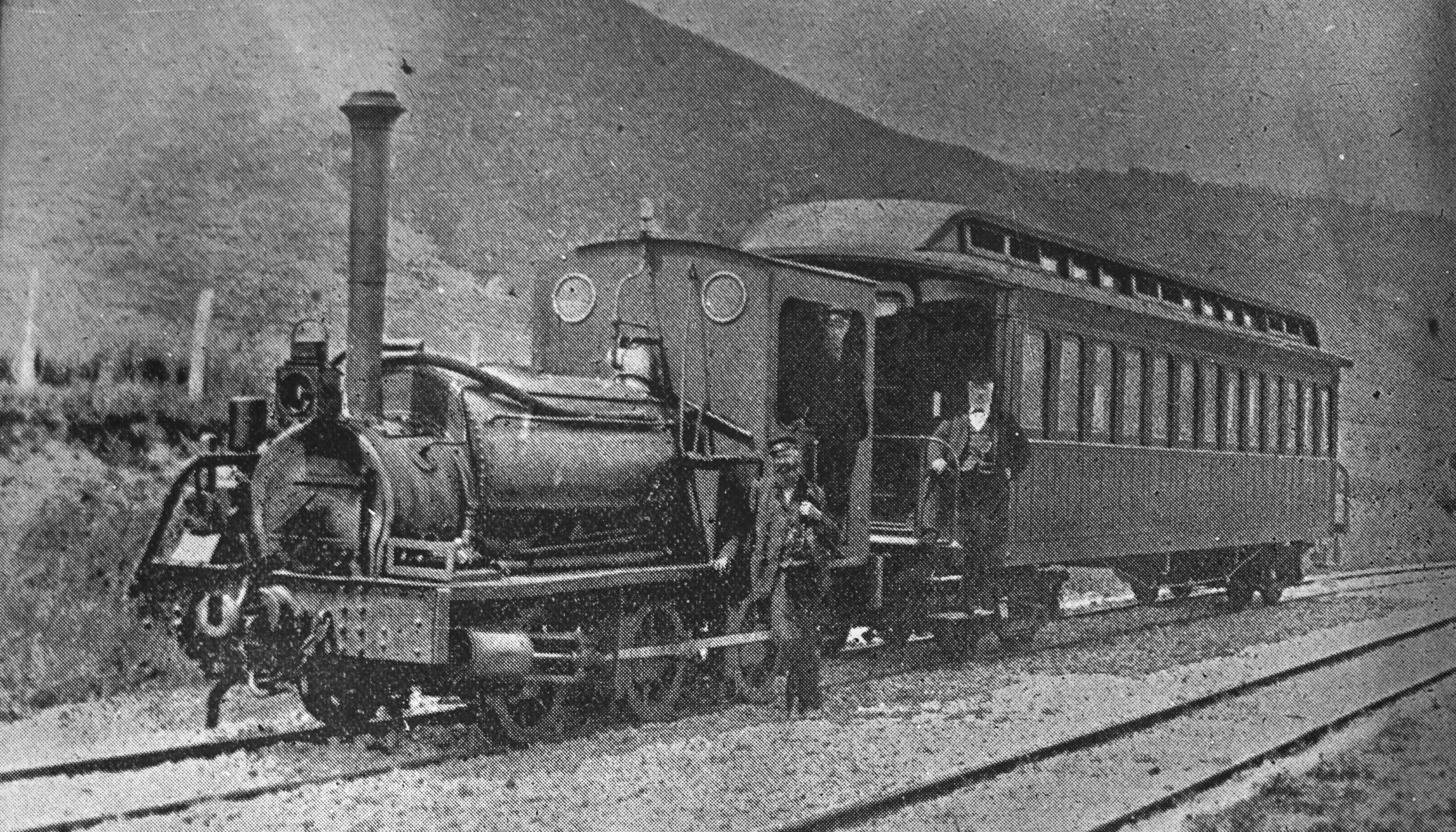 Photograph of an image in a publication, showing "Weka", the first locomotive to be built in New Zealand. Inscription in the publication is partially missing, but appears to say "... thread of life ... by the author of "Mysterious Mr Sabin" ... The first locomotive built in the colony. Built for the Government, this engine was afterwards purchased by the Manawatu Railway Company who found it handy for light running". The article appears to be by Edward Phillips Oppenheim (1866-1946) who wrote "Mysterious Mr Sabin" (See Te Puna); there is no visible information about the photographer. This negative was copied from the publication by Albert Percy Godber.